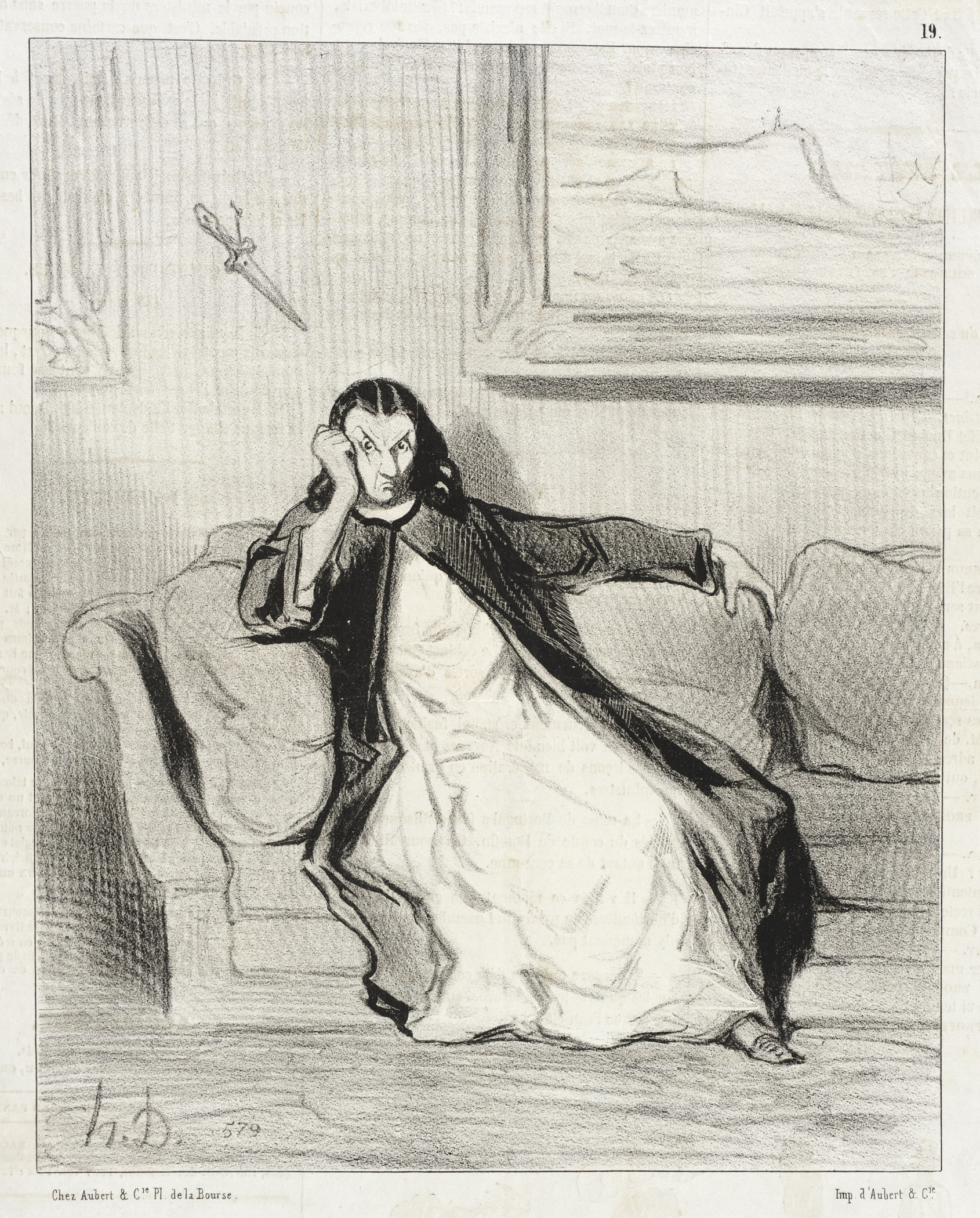 France, 1844 Series: Les Bas-bleus, plate 19 Periodical: Le Charivari, 24 March 1844 Prints; lithographs Lithograph Gift of Mr. and Mrs. Stanley Talpis (54.71.98) Prints and Drawings